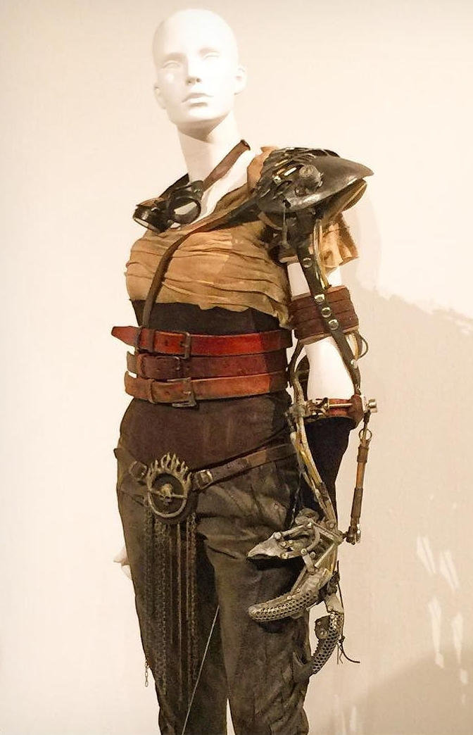 Charlize Theron's costume from the film Mad Max: Fury Road displayed at the exhibition 24th Annual Art of Motion Picture Costume Design at FIDM Museum, Los Angeles, CA.